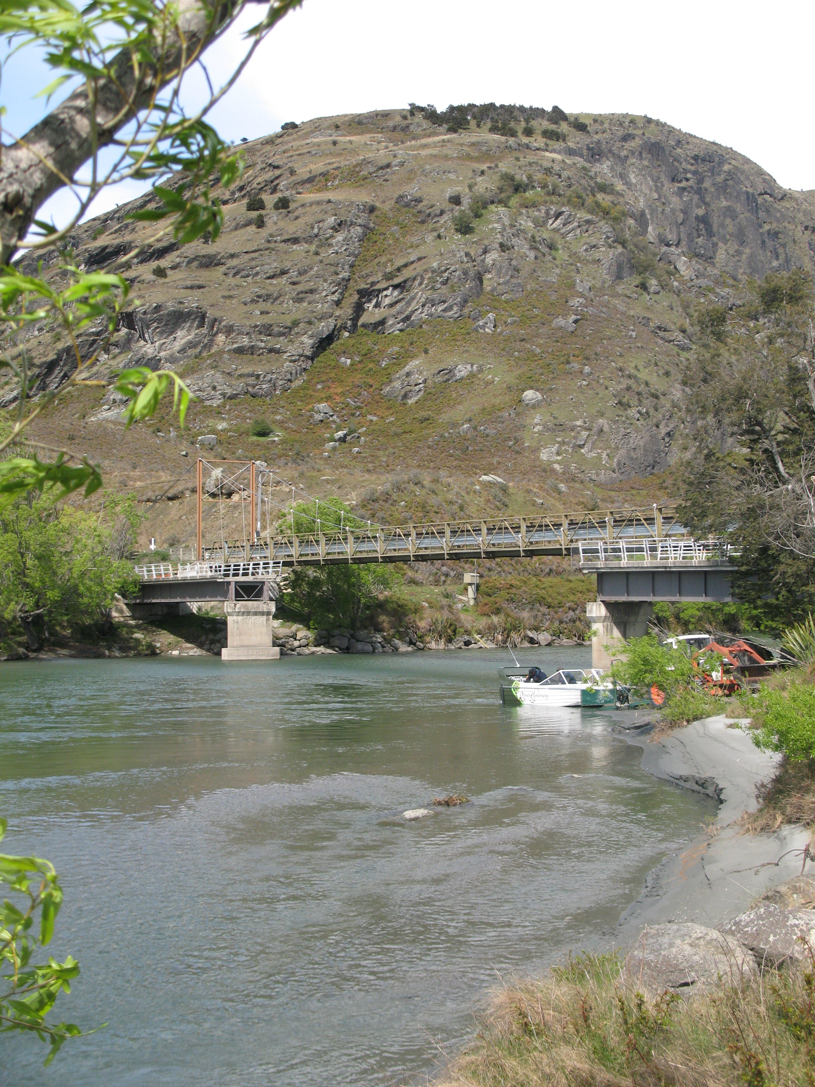 Matukituki River flows under the West Wanaka bridge before emptying into Lake Wanaka, Otago, South Island, New Zealand - OpenStreetMap(Info)